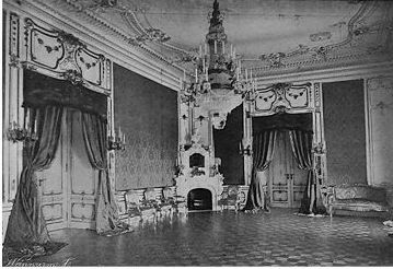 "Circle" Room in the Royal Castle of Budapest.